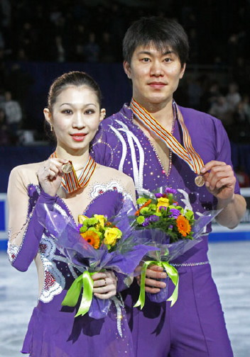 Zhang Dan & Zhang Hao (CHN) during the pairs medals ceremony at the 2009 Four Continents Championships. They won the bronze medal at this event.